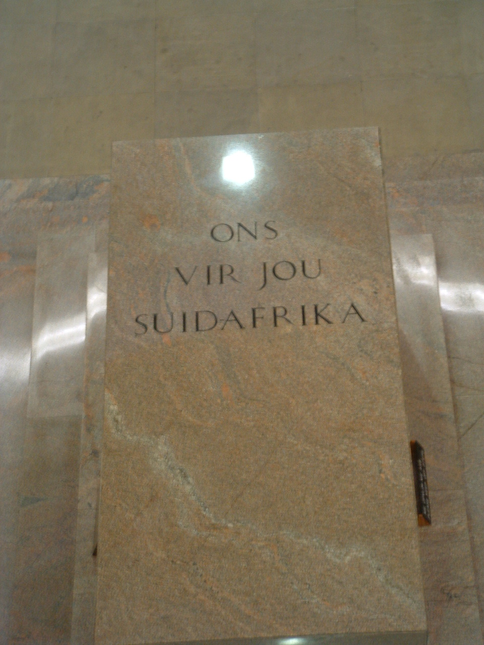 Cenotaph in the cenotaph hall of the Voortrekker Monument, Pretoria; the symbolic tomb of the Retief delegation who were massacred by order of Dingane in 1838. The inscription: We for thee South Africa